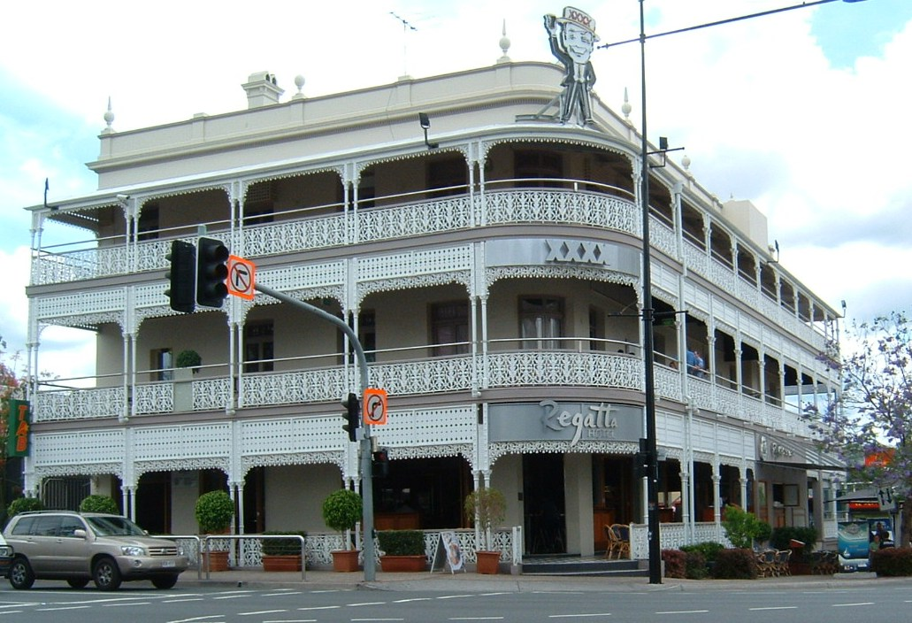 The Regatta Hotel in Toowong, Queensland. Photo taken by User:Adz on 8 October 2005.